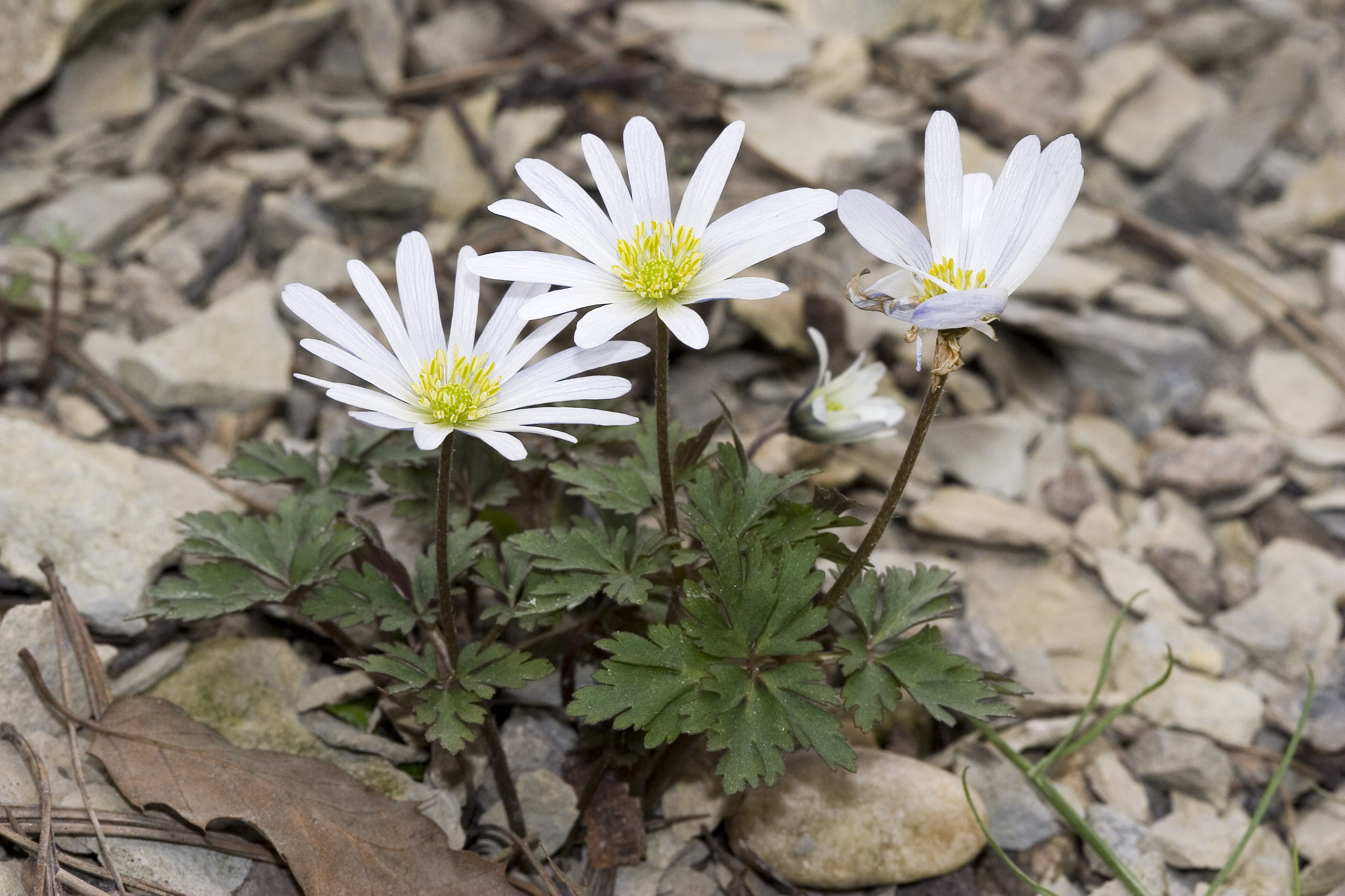 Please report references to .